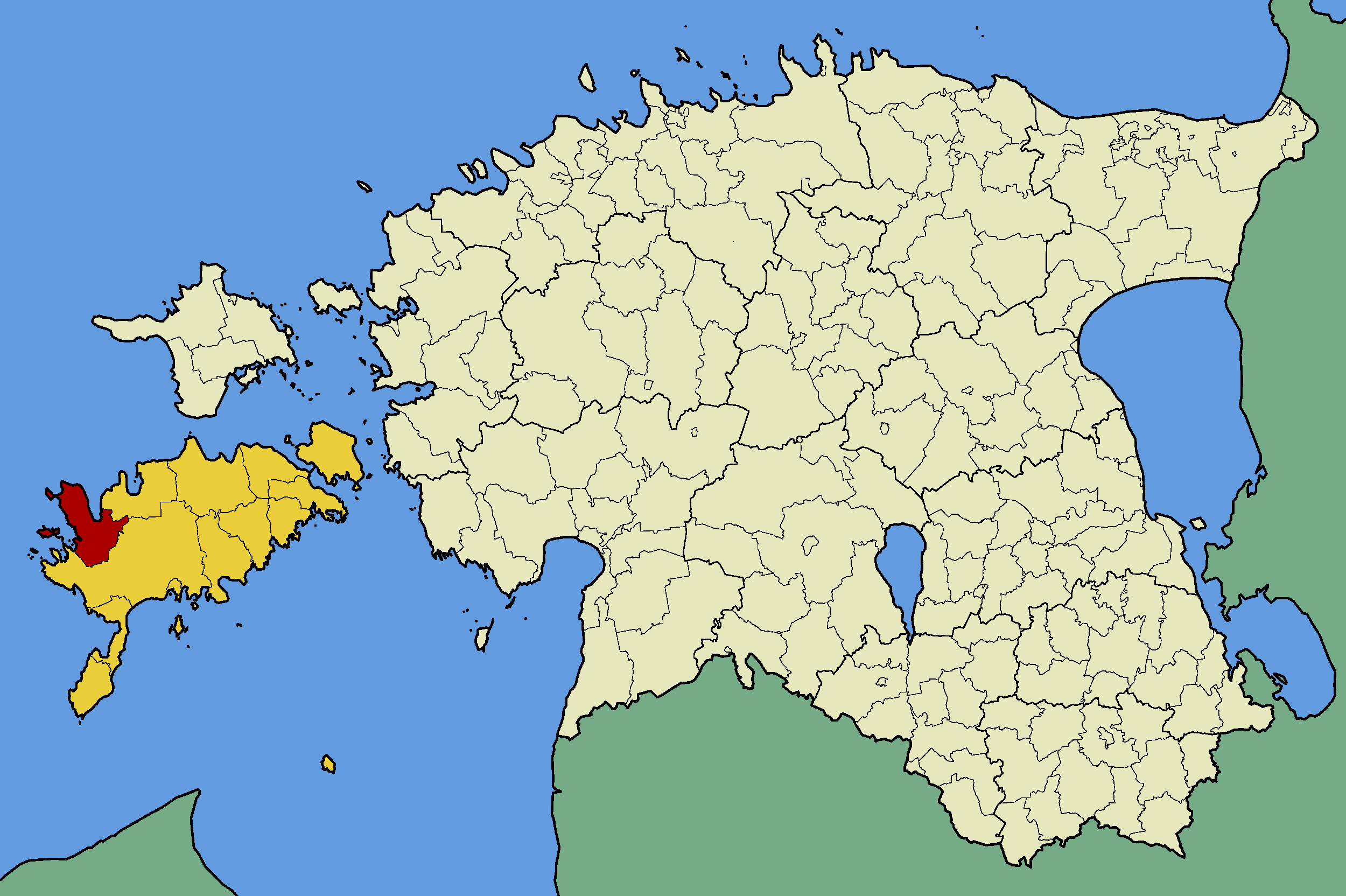 Map of Estonia with borders of municipalities (parishes). Saare county and Kihelkonna municipality emphasized.